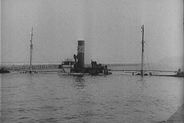 Polish ship "Torun" scuttled on September 6th 1939, blocking the southern exit of Gdynia harbor. A frame from German propaganda movie republished by American Department of Defense. Department of the Army. Office of the Chief Signal Officer. (09/18/1947 - 02/28/1964). ARC Identifier 24457 / Local Identifier 111-FB-48 1943